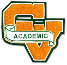 Chenille Varsity Letter with Embroidered Music Insert